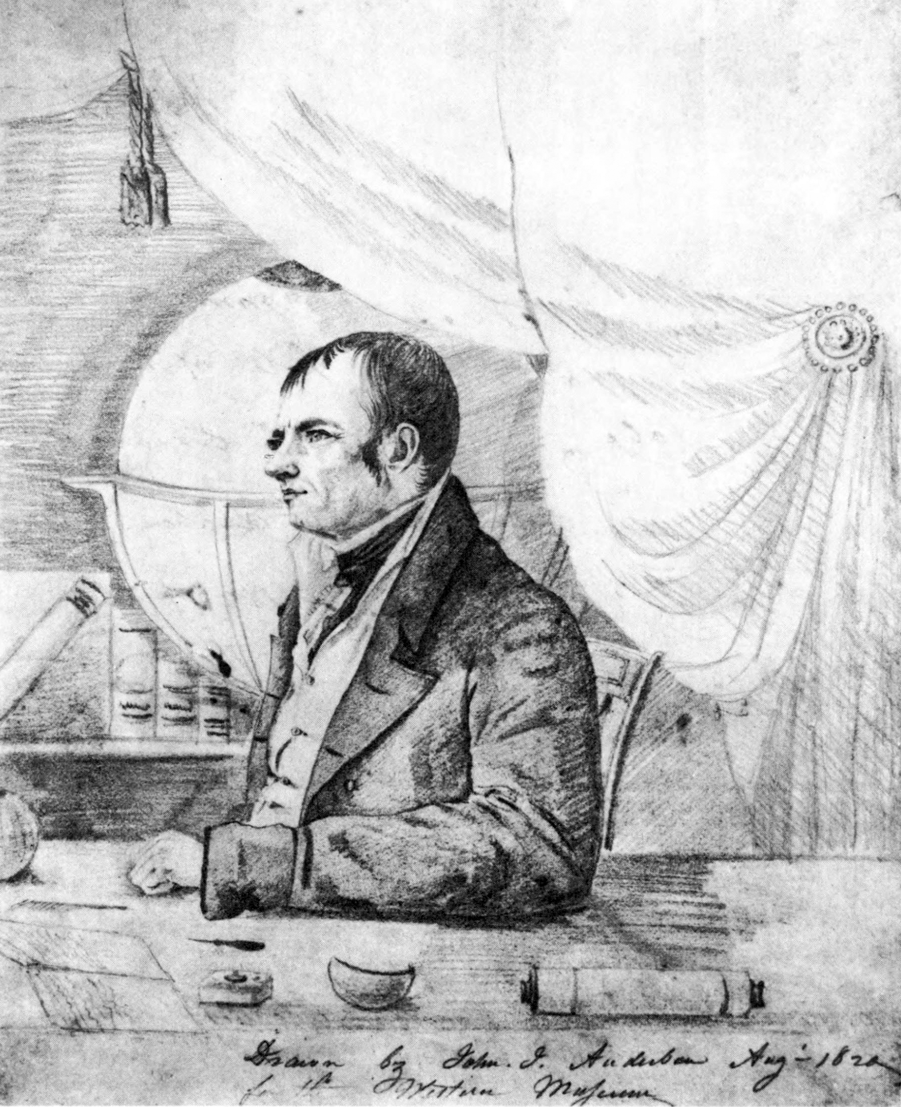 John Cleves Symmes, Jr. and his hollow earth.